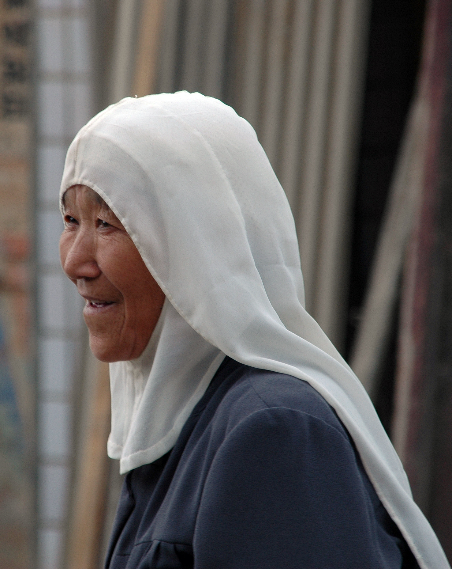 Dongxiang (muslim) woman in a village near Linxia, Gansu, China